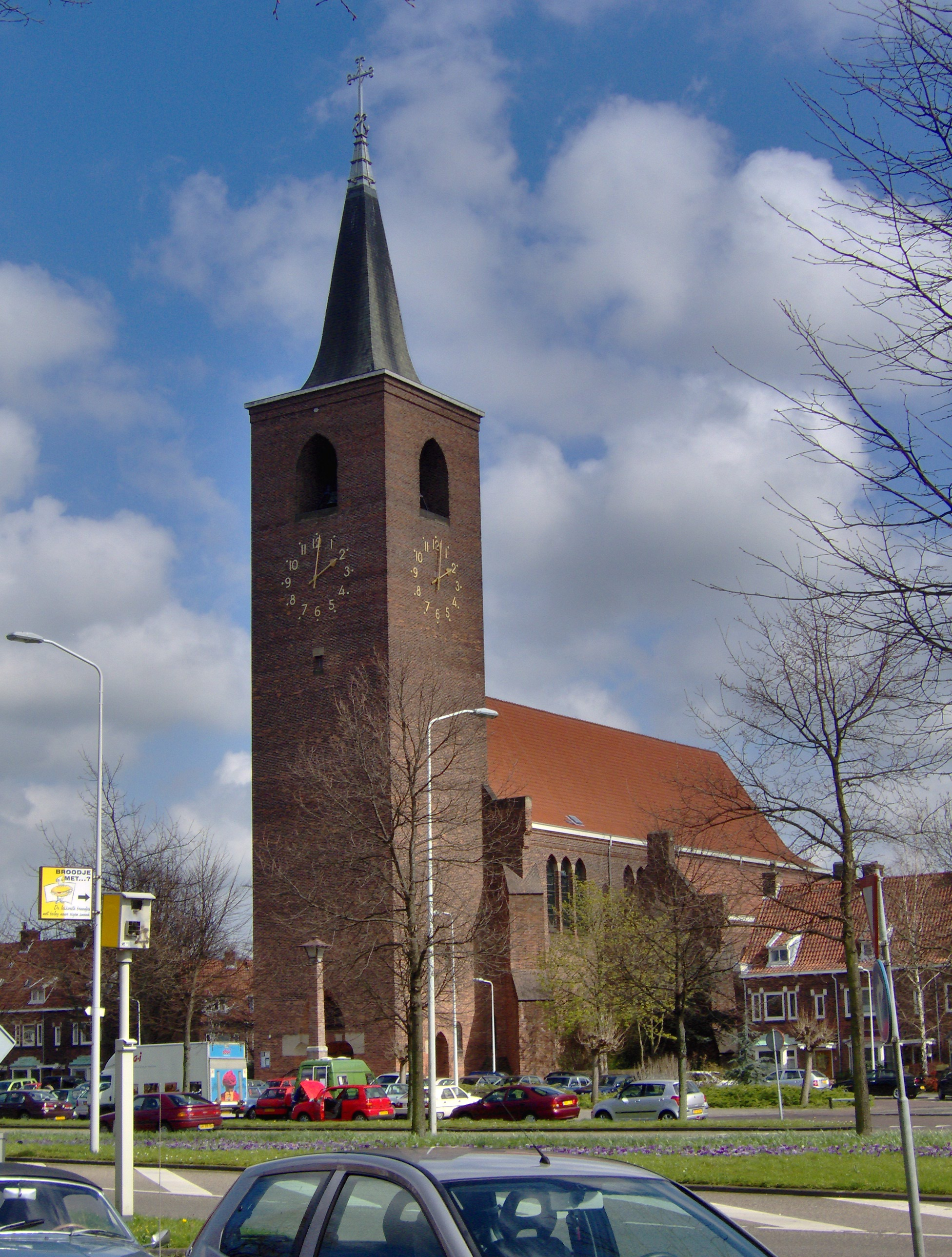 The Sint-Petruskerk in the city of Leiden, The Netherlands.